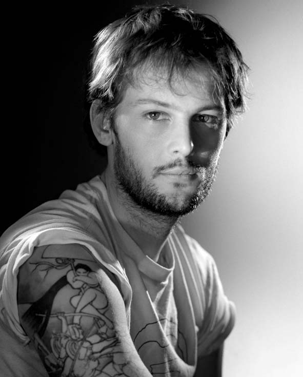 Nicolas Duvauchelle photographed by Studio Harcourt Paris